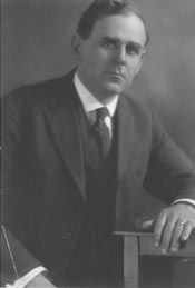 Former congressman William Noble Andrews of Maryland.